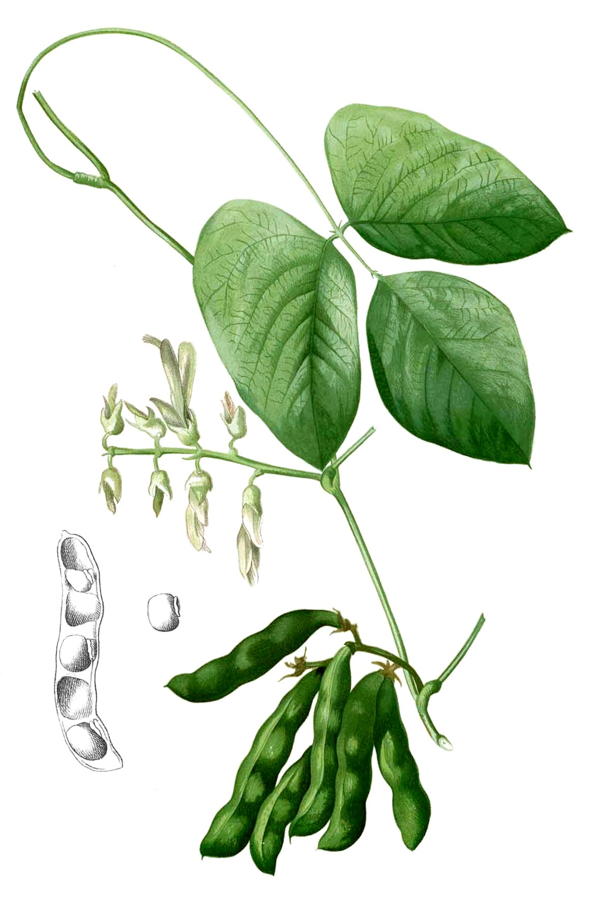 Plate from book